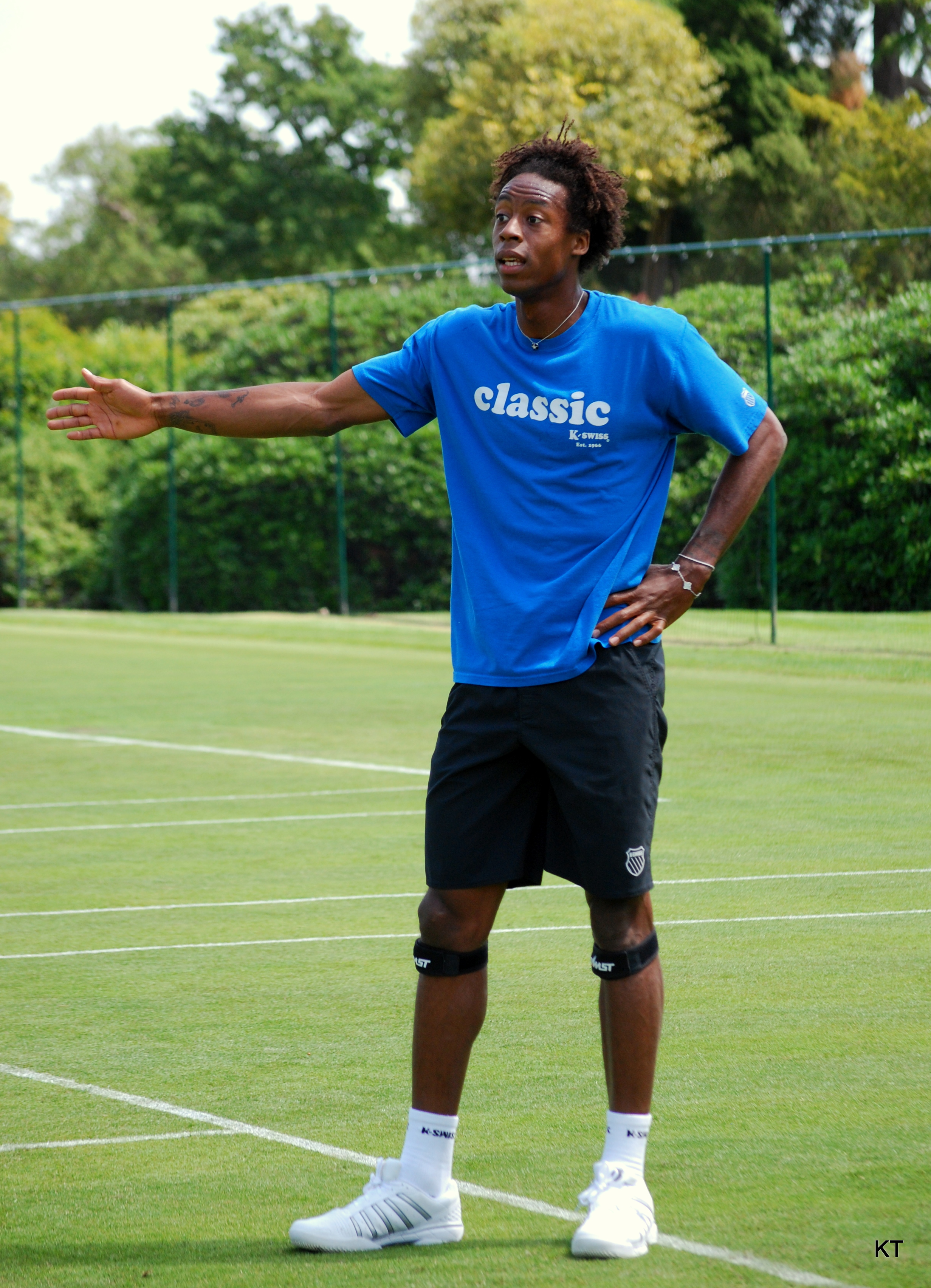 The Boodles, Stoke Park, 2011.